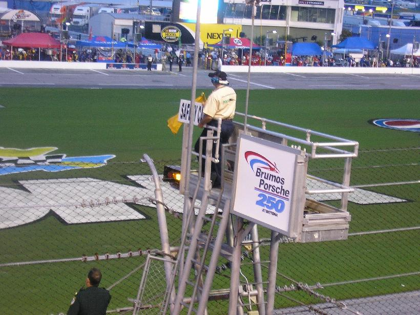 Caution flags fly at Daytona International Speedway as the Brumos Porsche 250 is underway.